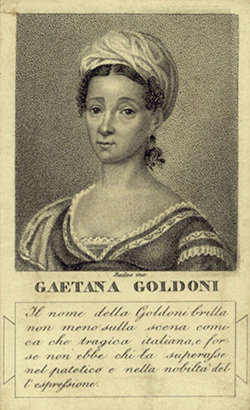 Portrait of Gaetana Goldoni, actor (1768-1830), before 1840.